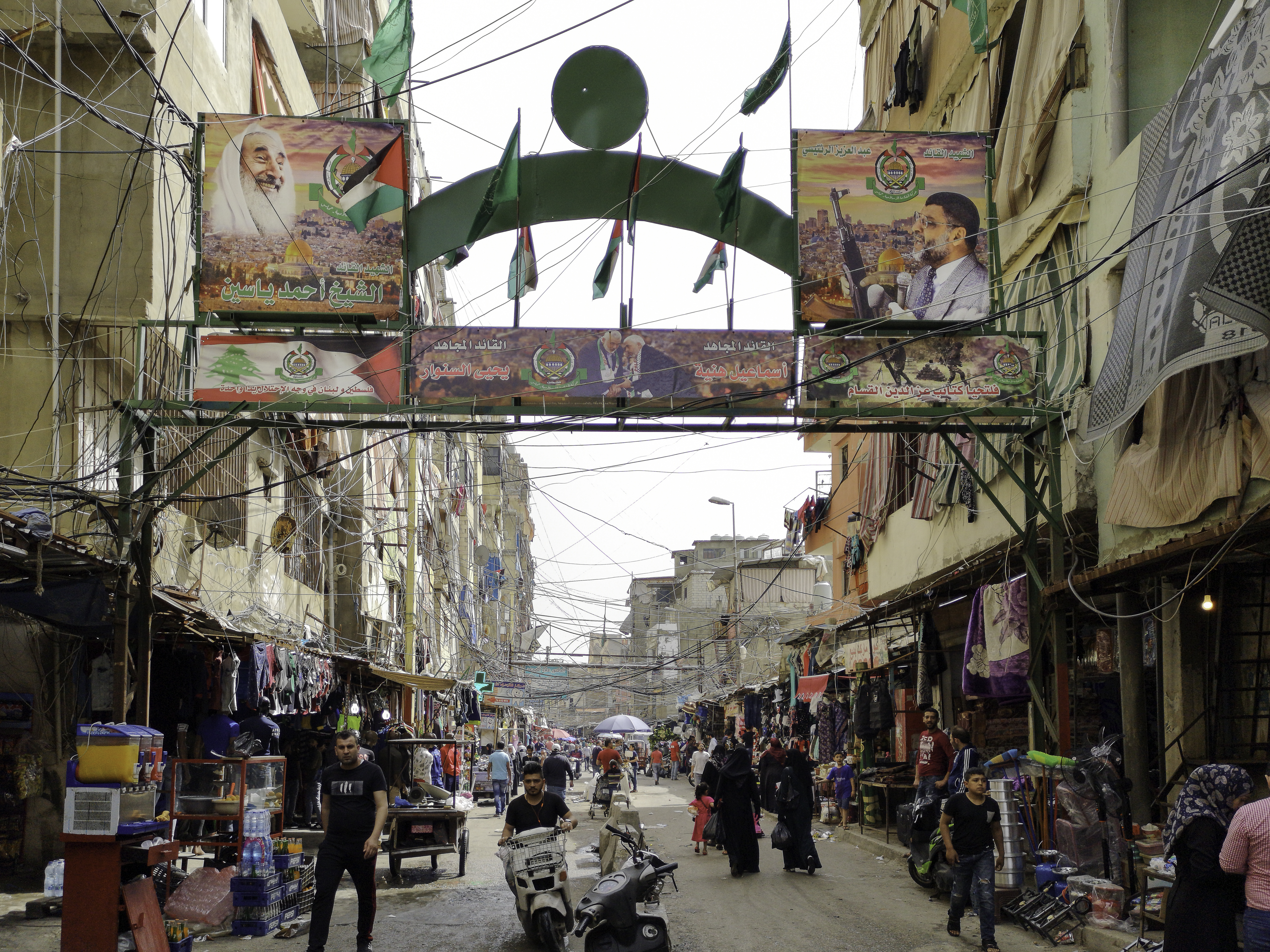 Street view of Shatila refugee camp